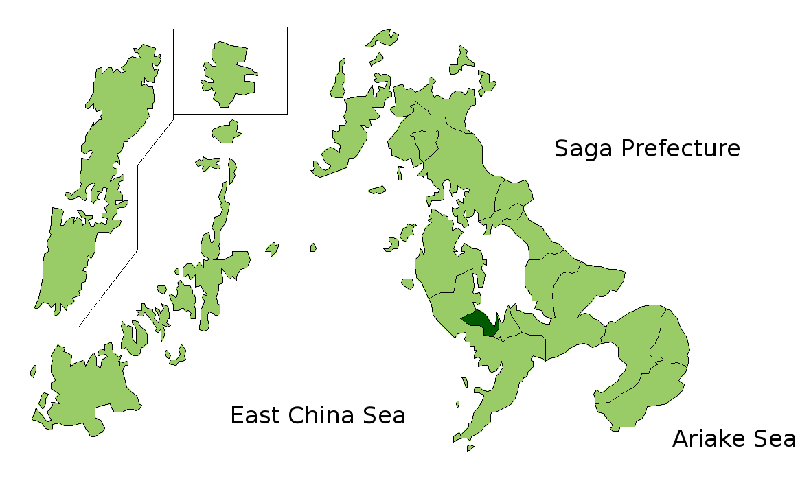 The location of Togitsu in Nagasaki Prefectuur, Japan